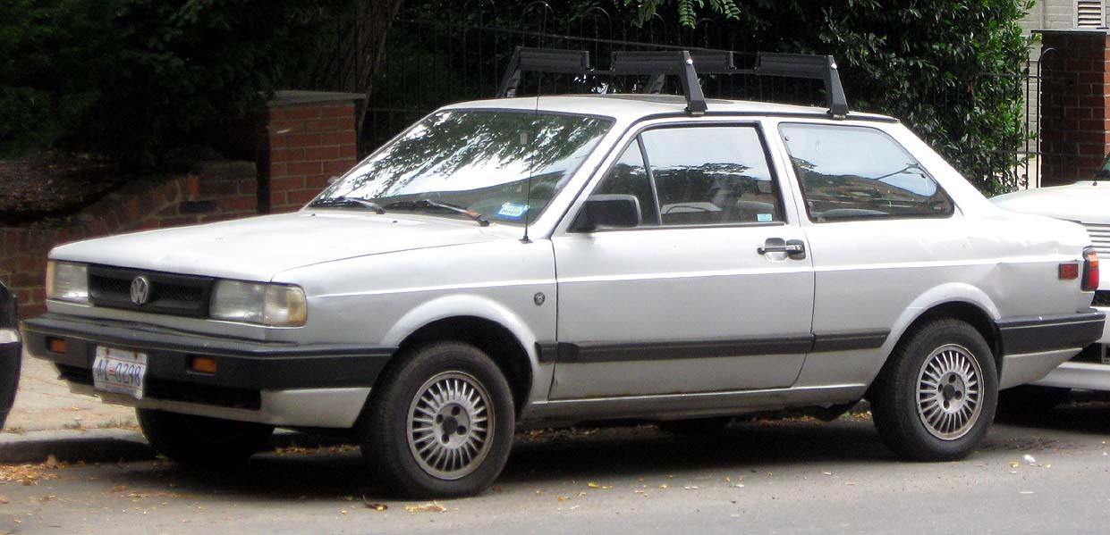 Volkswagen Fox photographed in Washington, D.C., USA.